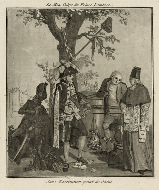 French prolitical cartoon of Charles Eugène de Lorraine (1751-1825), prince de Lambesc. Anonymous aquatint. Library of Congress description : "Print shows three men representing the nobility, the clergy, and the third estate meeting beneath a tree against which is sitting Prince de Lambesc, while workmen demolish the Bastille in the background. May symbolize the renunciation of feudal and signeurial rights in the National Assembly on 4 August 1789."